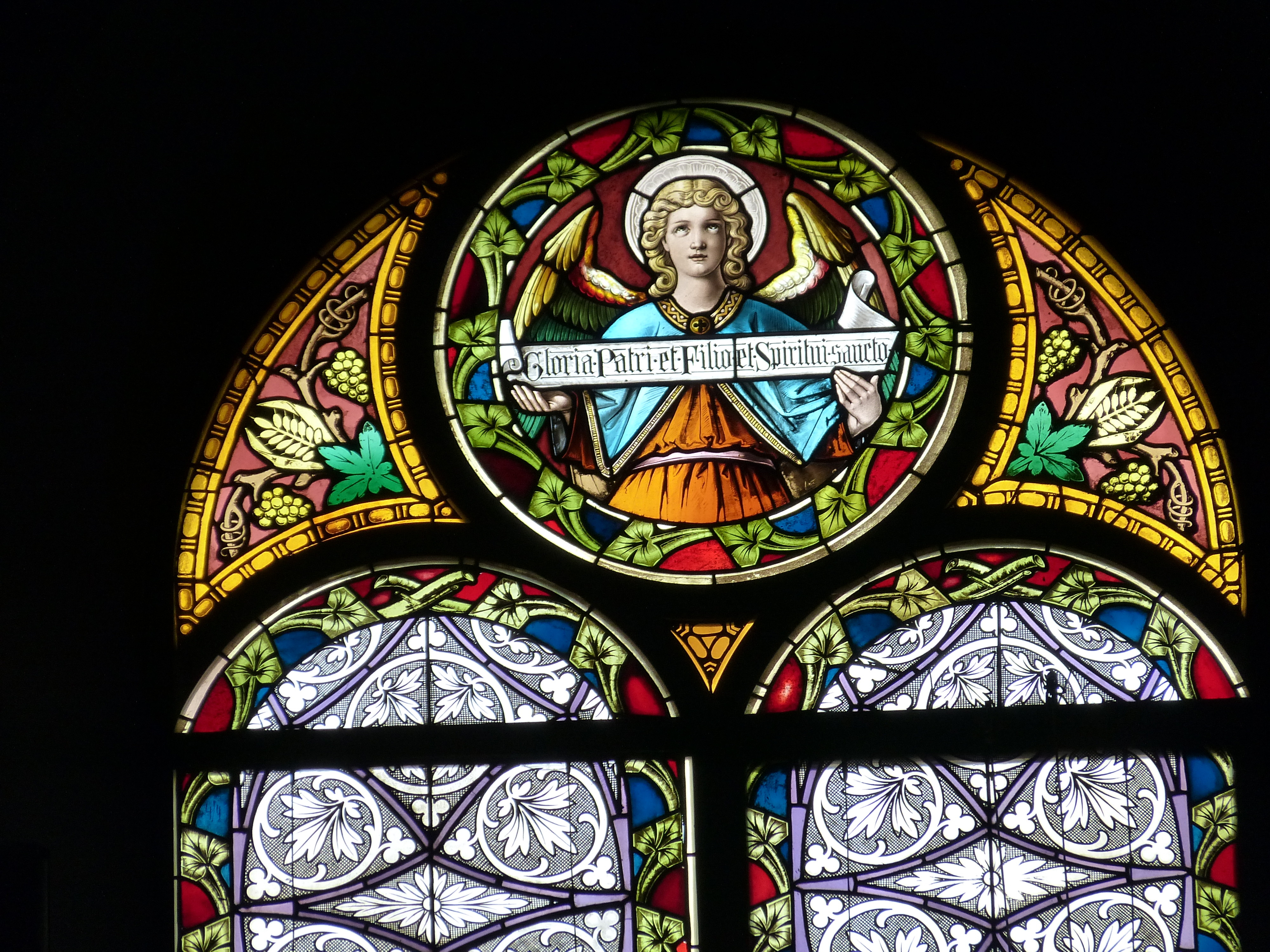 Schlägl ( Upper Austria ). Monastery church - Stained glass windows ( 1893 ) in the nave: Angel with the Latin inscription GLORIA PATRI ET FILIO ET SPIRITUI SANCTO ( Glory to Father, Son and Holy Spirit )